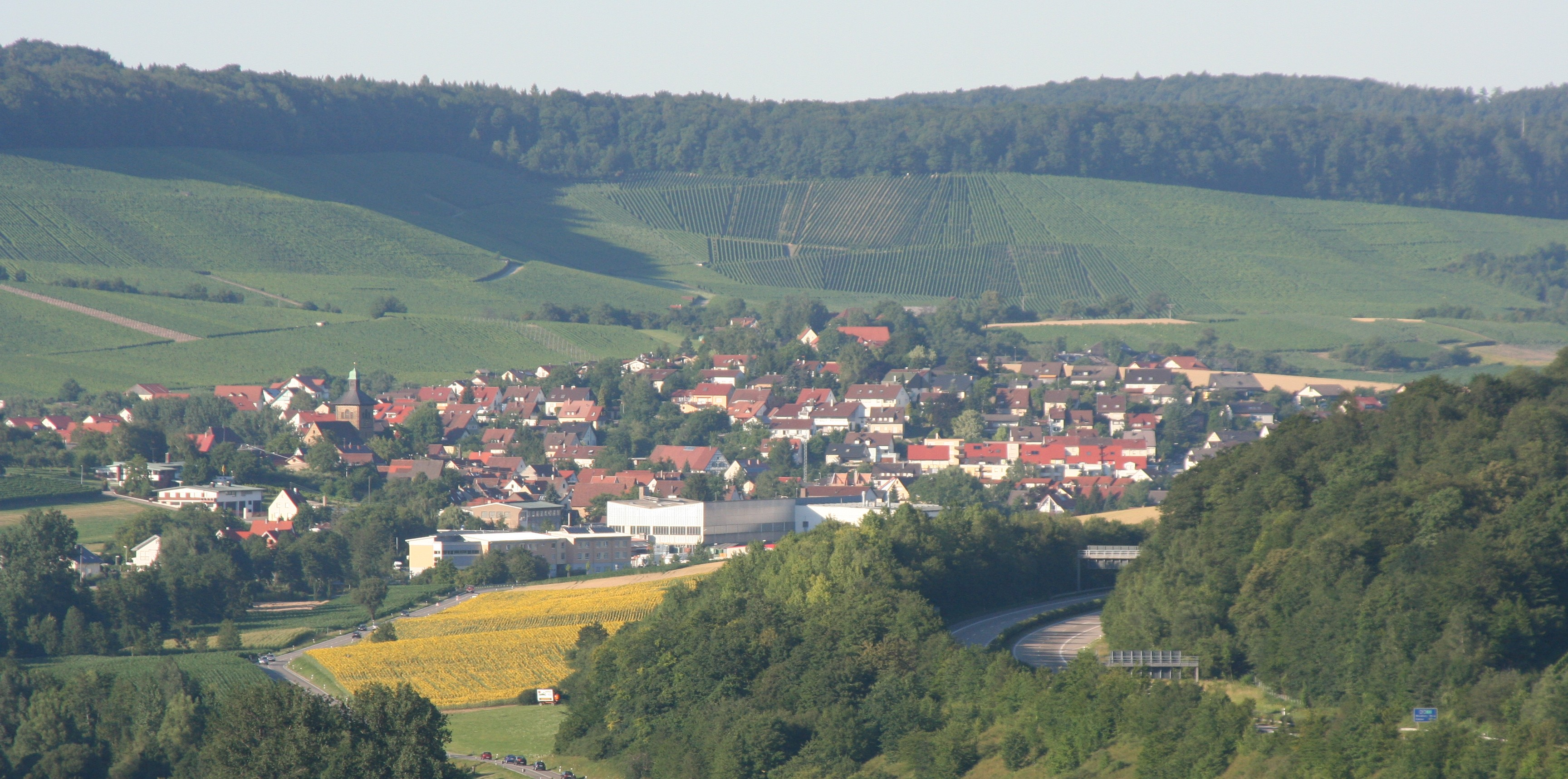 Eberstadt as seen from Weinsberg (castle ruin)